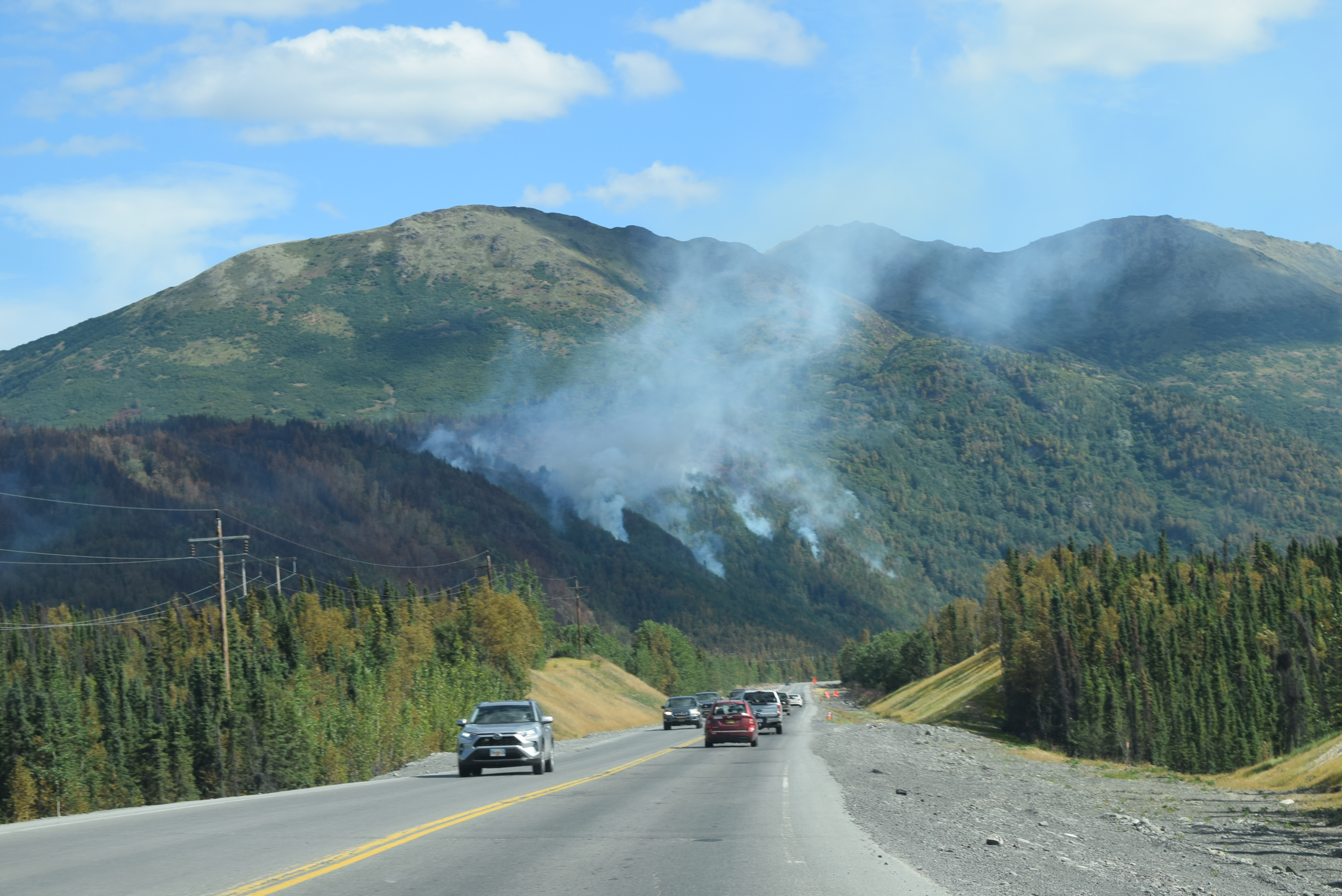 Smoke from a wildfire at Swan Lake, Alaska